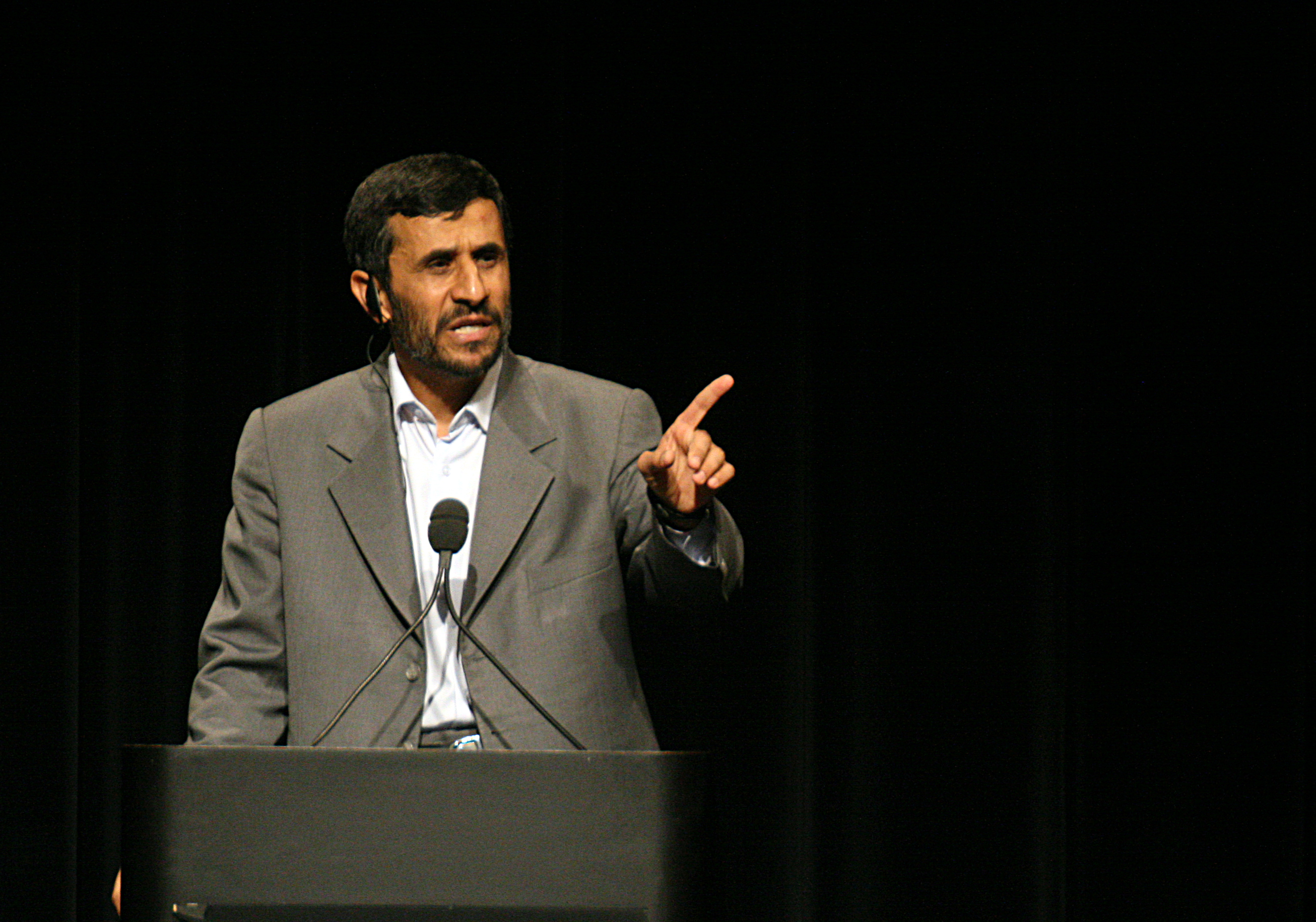 President of Iran, Mahmoud Ahmadinejad makes a public speech at Columbia University in New York City.